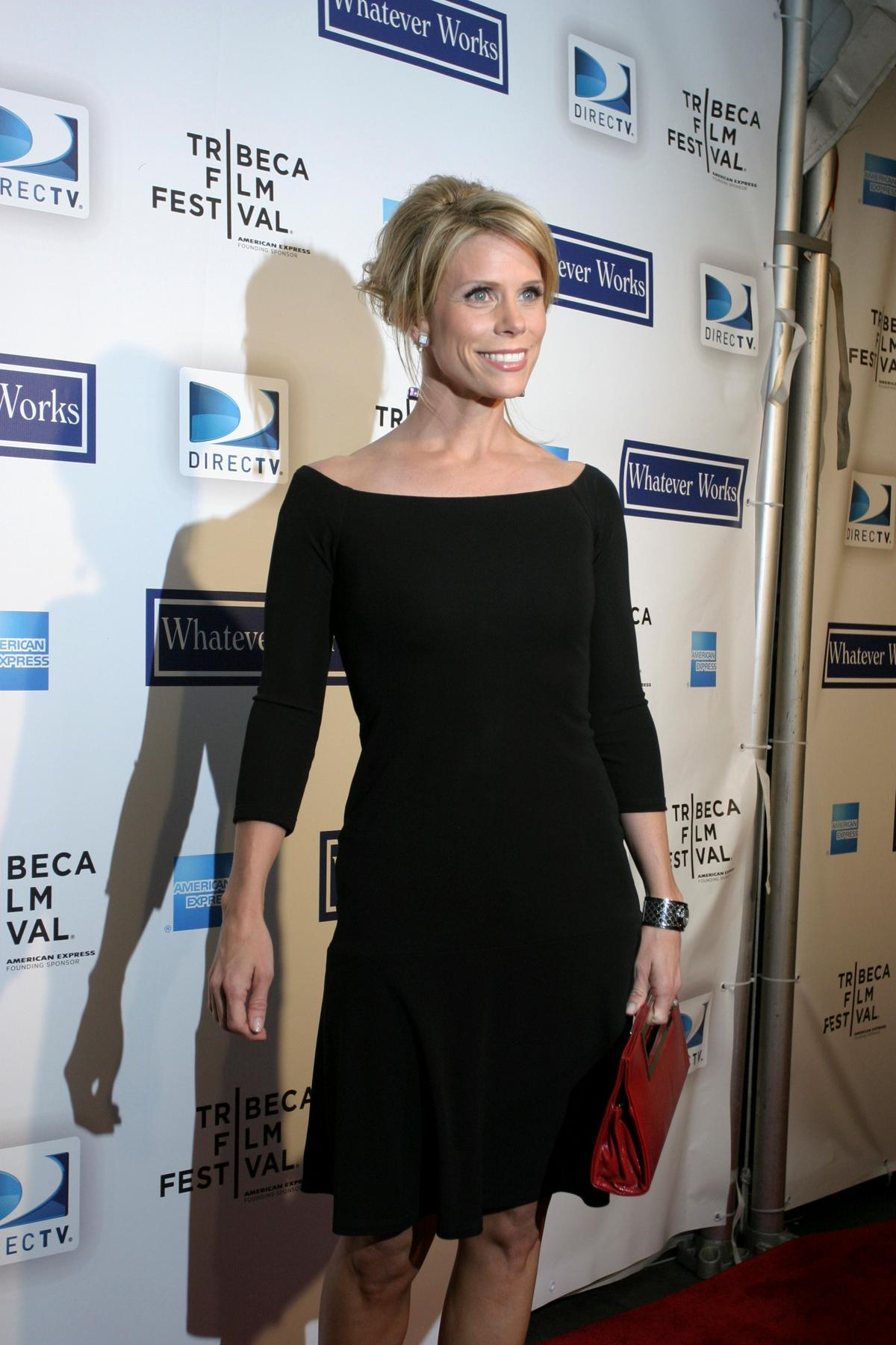 Cheryl Hines – Tribeca Film Festival "Whatever Works" Premiere.